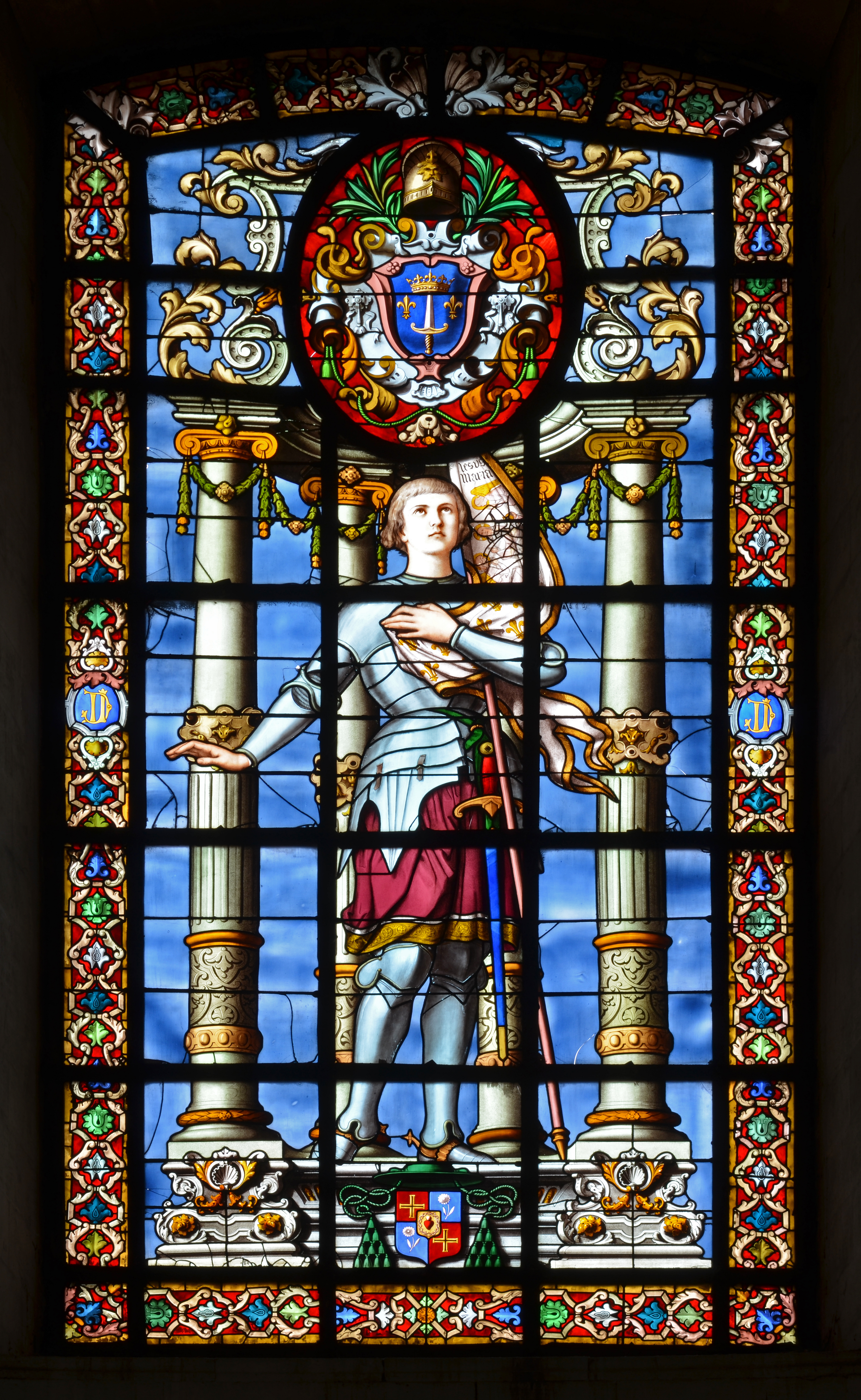 Stained glass window (1880) depicting Joan of Arc in La Rochelle Cathedral - Charente-Maritime, France. .